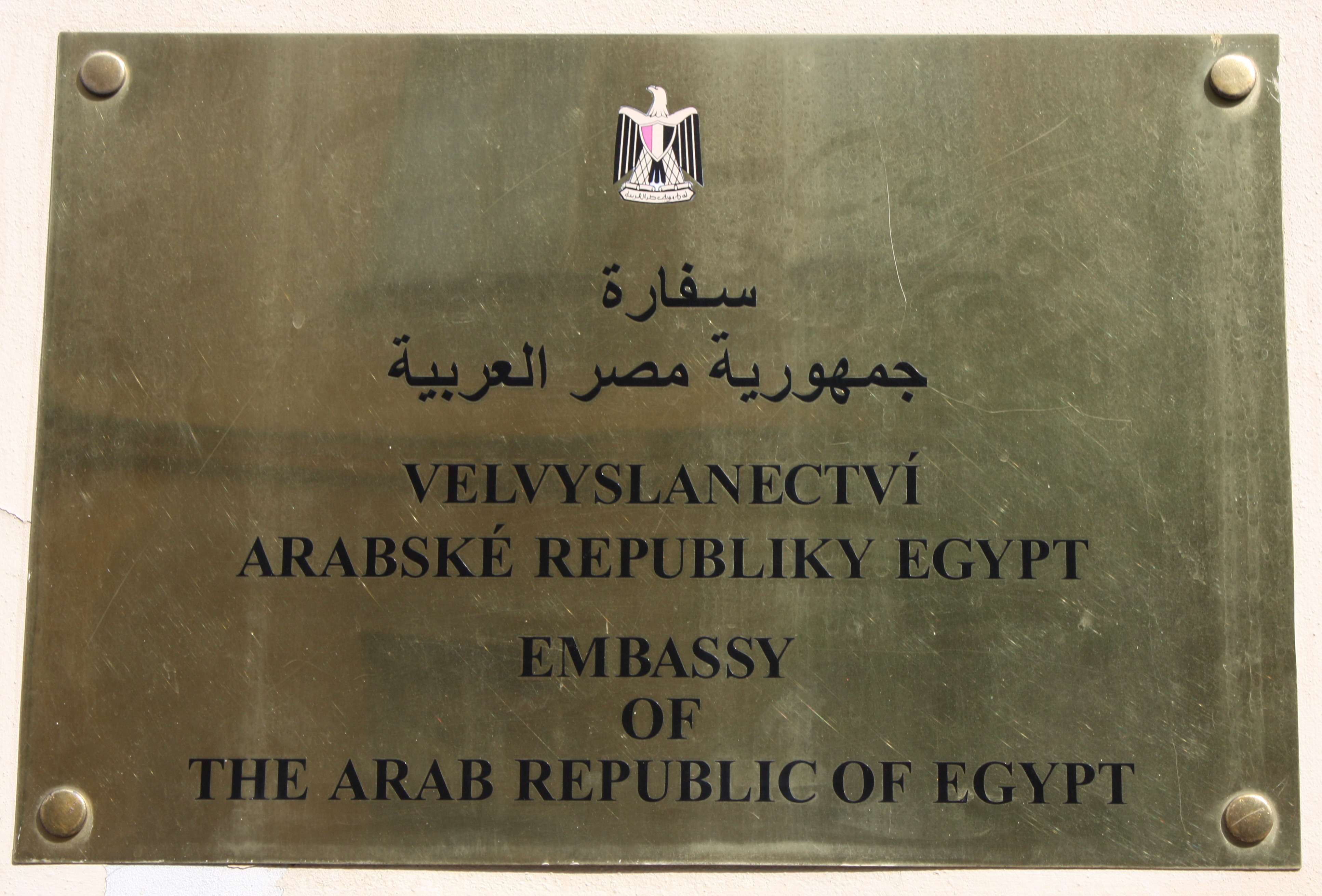 Coat of arms on Egyptian Embassy in Prague, Czechia.